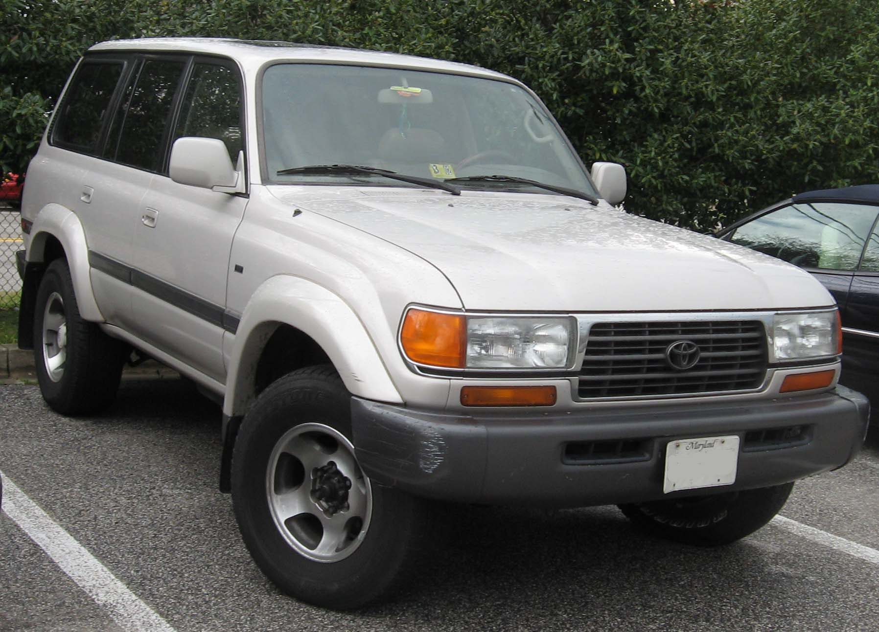 Toyota Land Cruiser photographed in USA. 1997 CE model, indicated by small badge on front fenders, "black chrome" Toyota emblem, and gray wheel accents.